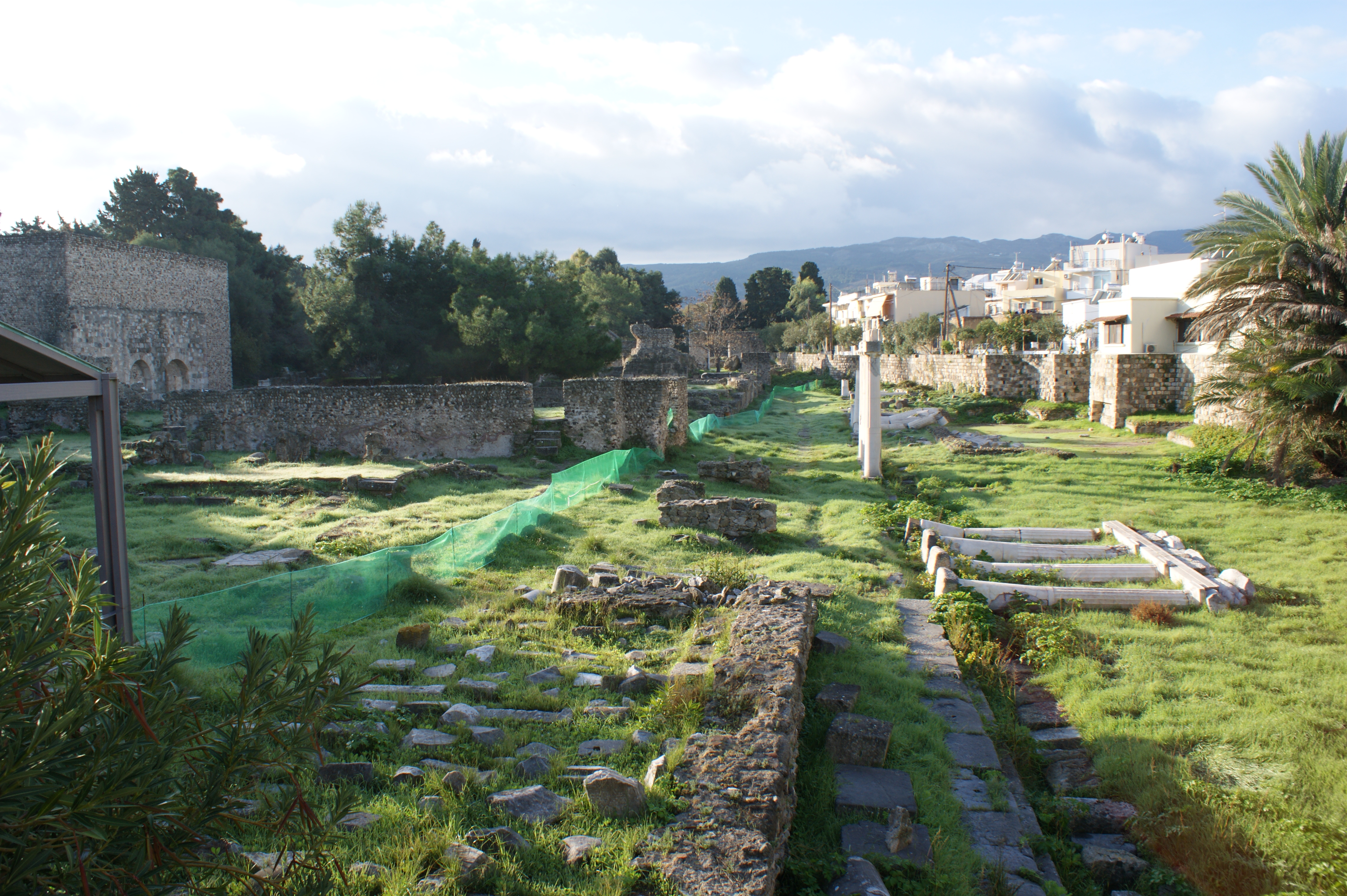 Archaeological quater "West" (Western Archaeological Site) in the city of Kos on the Greek island of Kos. Former medieval quarter destroyed in an earthquake in 1933. Among them were historical finds from the Hellenistic and Roman times.